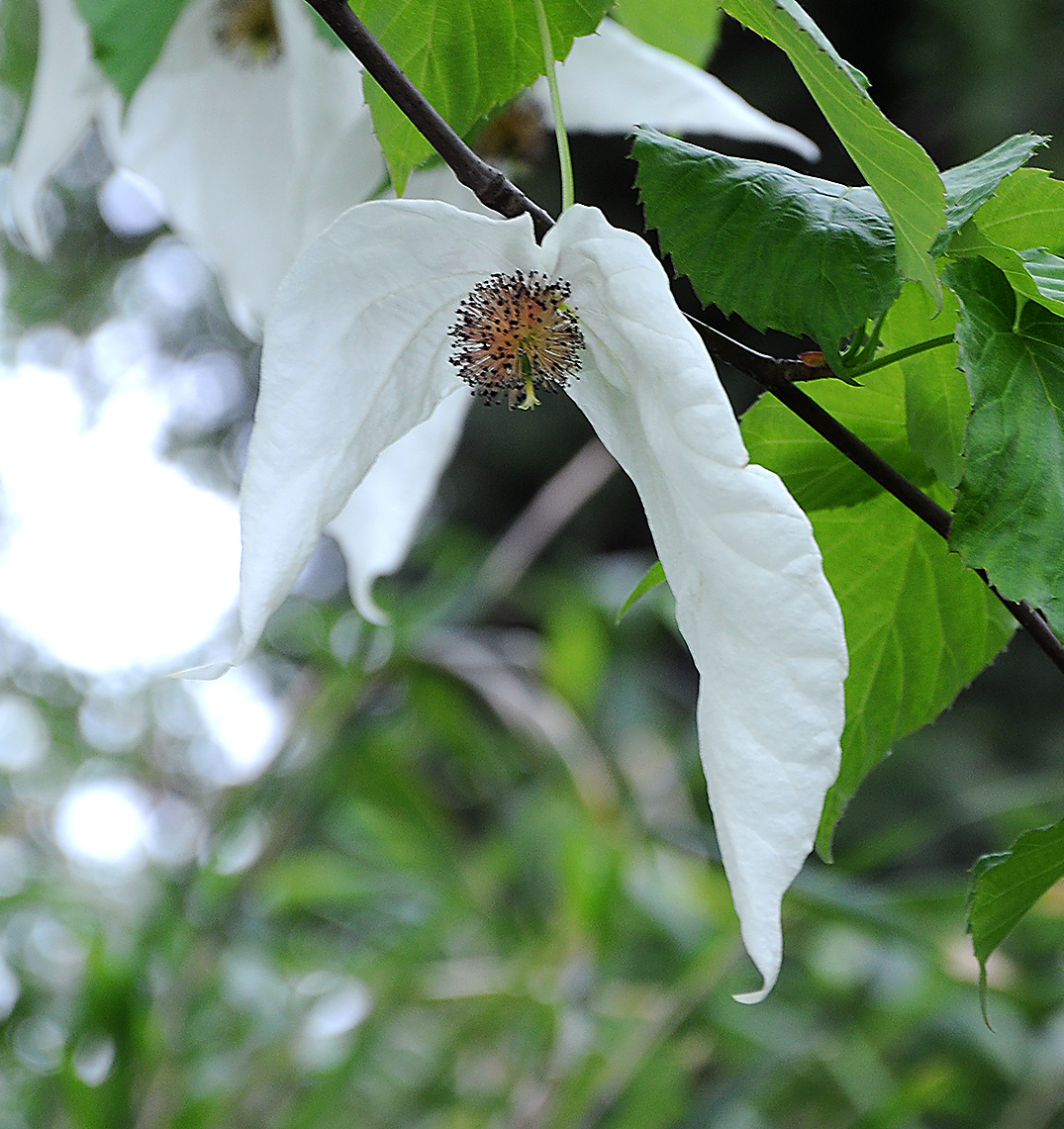 Dove tree